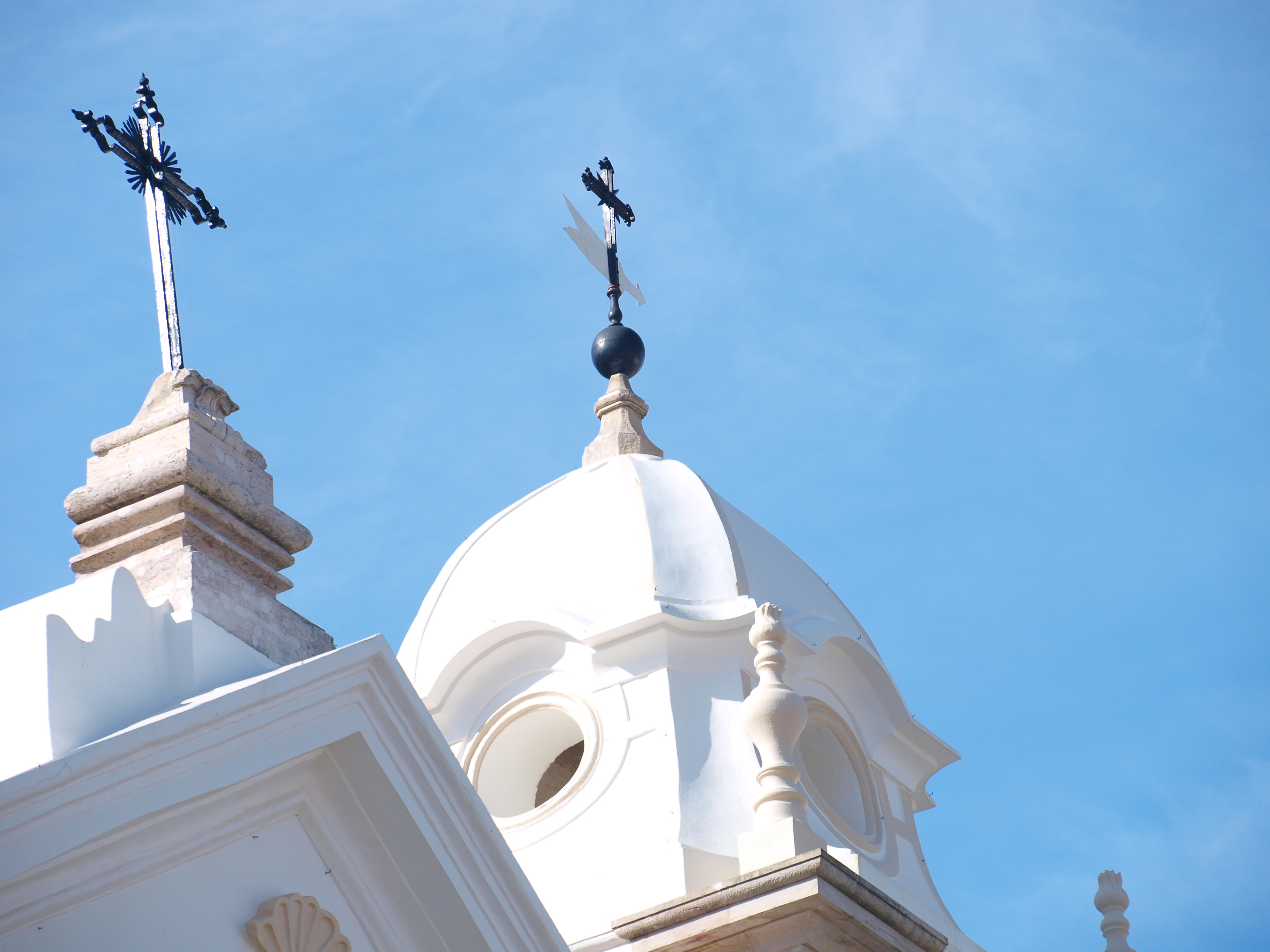 Church of Gradil, Mafra, Portugal.